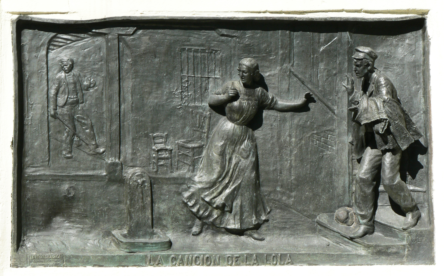 Bronze relief representing La canción de la Lola. Detail of Monument to the Madrilenian Sainete Writers in Madrid (Spain)